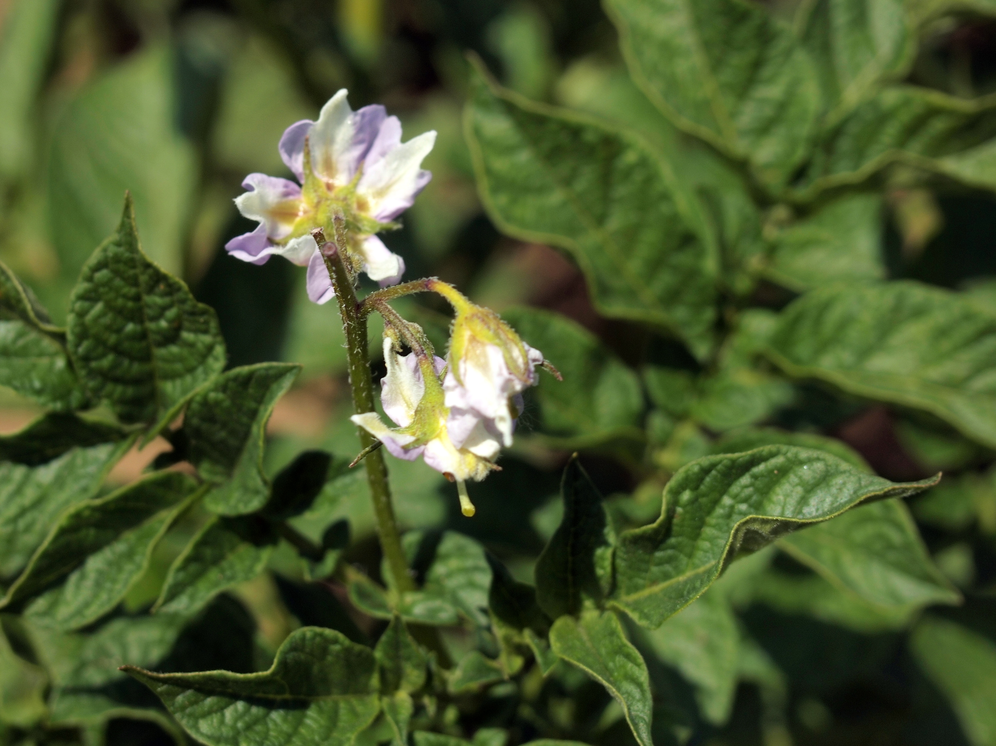 This potato-picture was taken by Ordercrazy with permission of Christian Müller from Aletshofen, municipality of Ettringen, Germany.